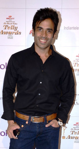 Colors indian telly awards